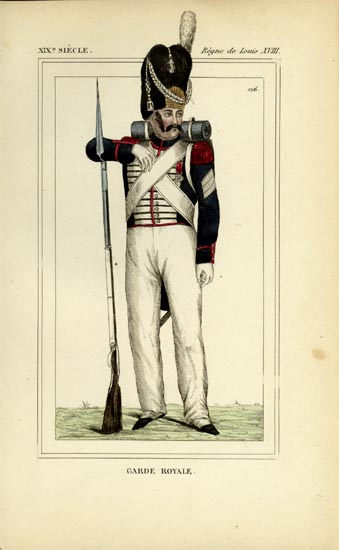 "Grenadier" of the royal guard of Louis XVIII of France.